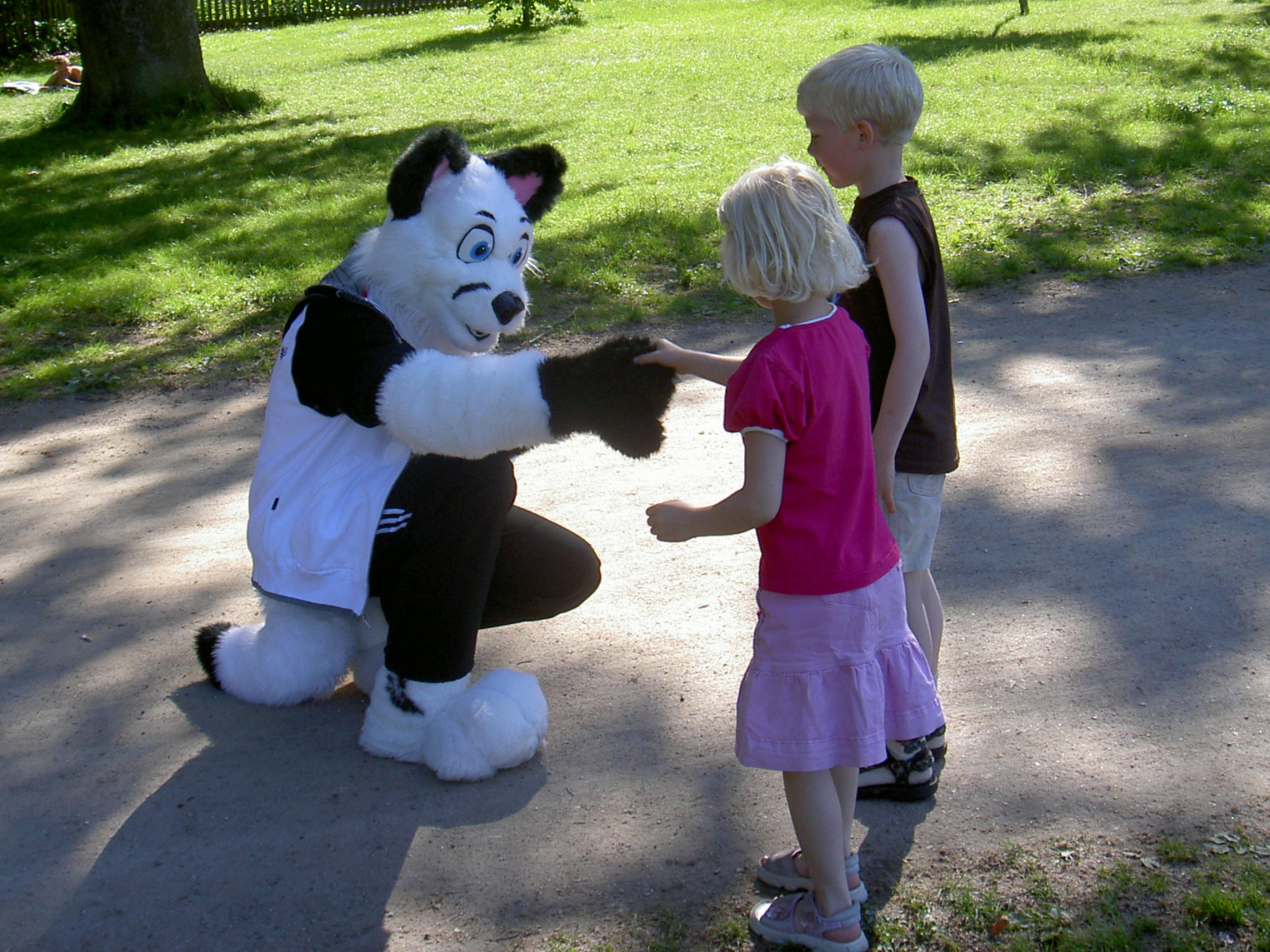 Photo of a fursuiter Cookiefox entertaining children. Taken in the central park, Copenhagen.